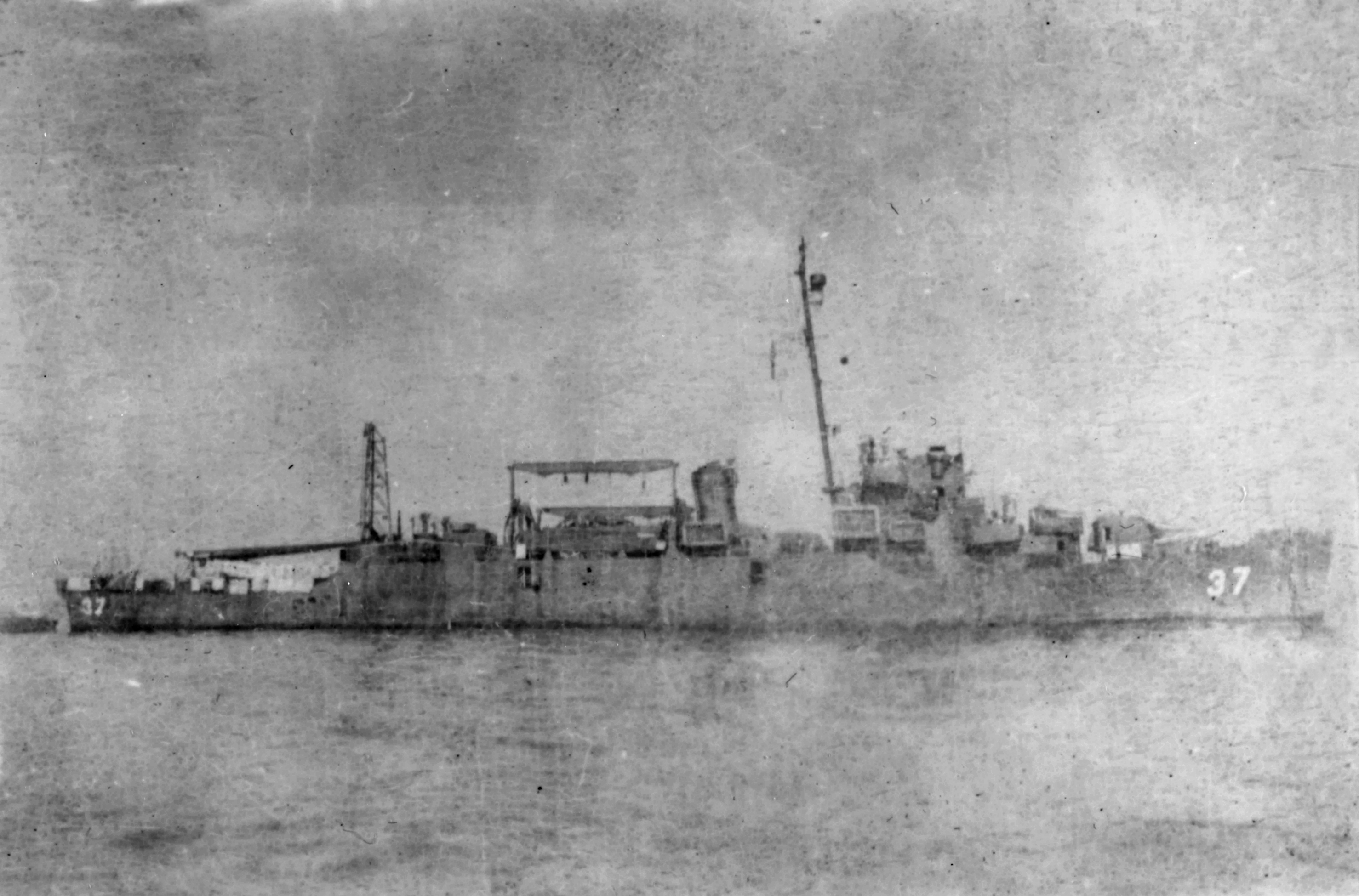 The U.S. Navy high speed transport USS Charles Lawrence (APD-37), circa in 1945.